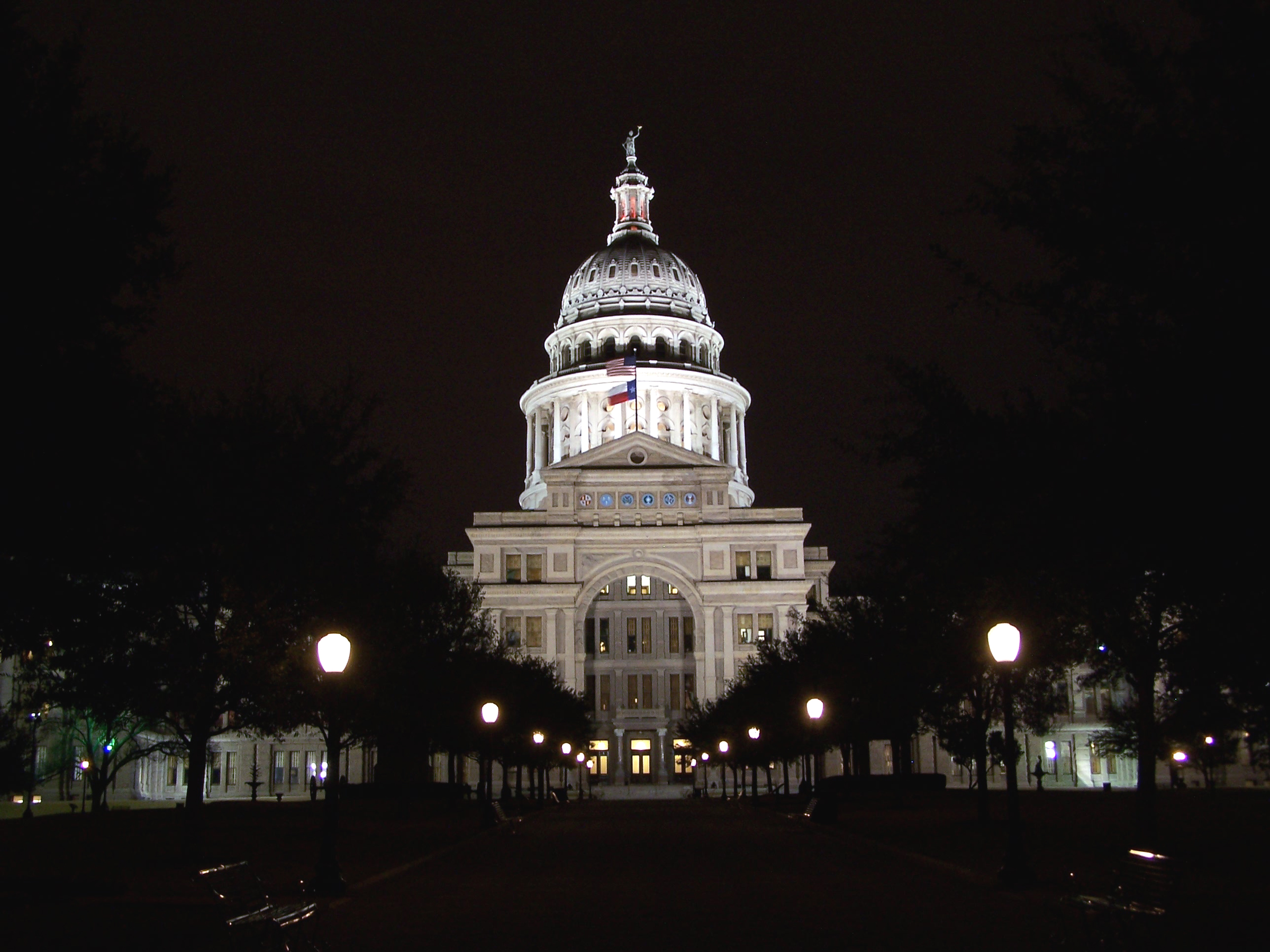 The Texas State Capitol located in Austin, Texas, United States. The Capitol was added to the National Register of Historic Places on June 22, 1970 and was recognized as a National Historic Landmark in 1986.